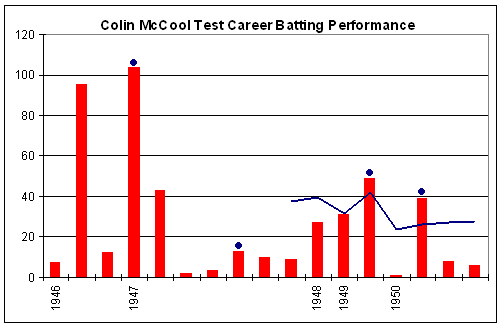 Test batting chart of Colin McCool. Red columns are the runs in the innings. Blue dots indicate not outs. Blue line is average in the last ten innings. Thanks to Raven4x4x for providing the template.